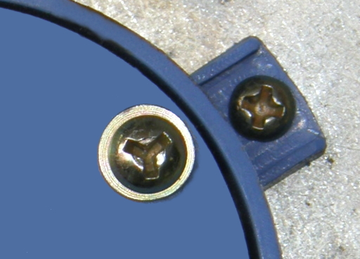 Tri-Wing